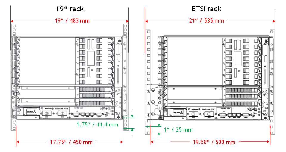 drawing showing the different dimensions of ETSI and 19 inch racks